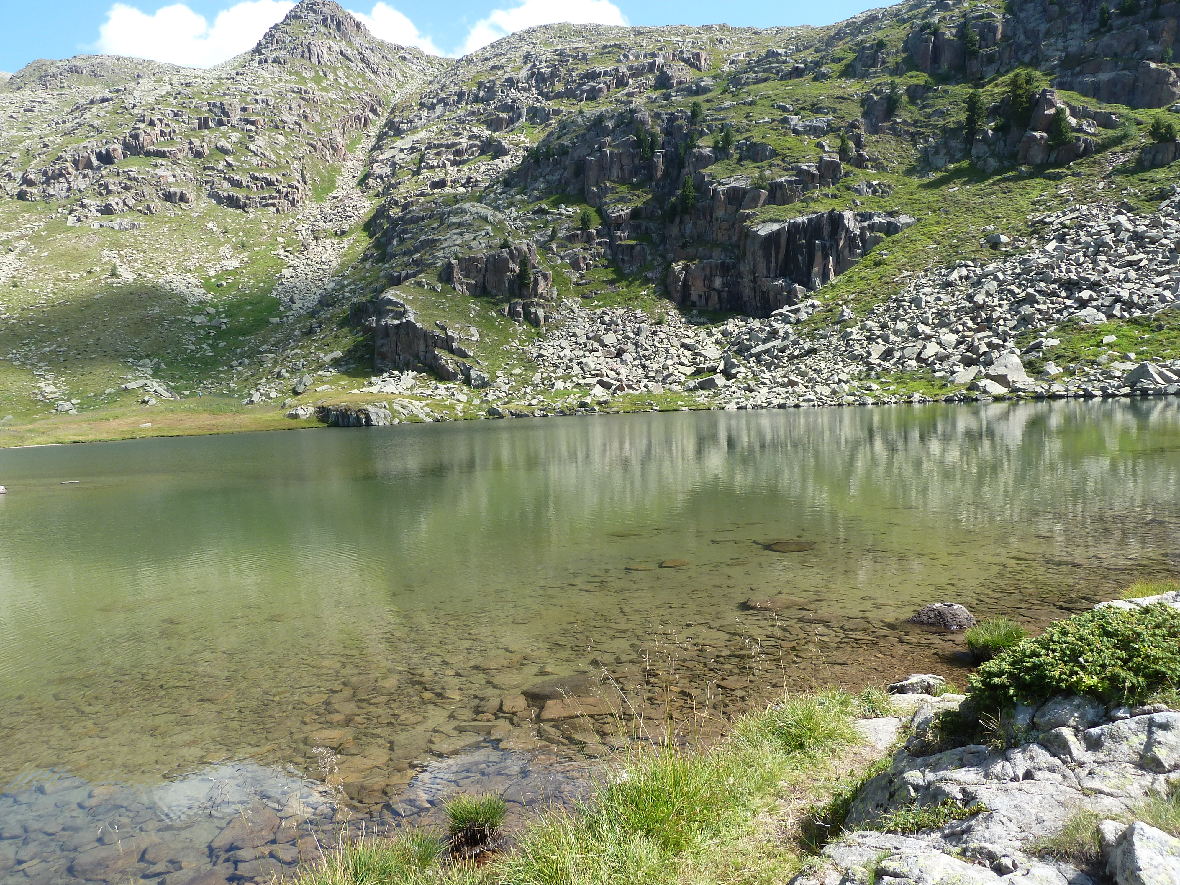 Bocche Lake